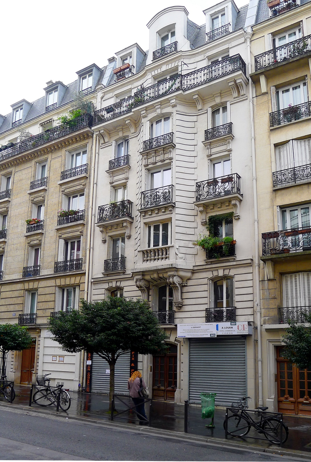 Montgallet street - Paris